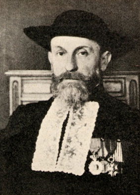 Ernest Ginsburger (1876-1943); chief rabby of Belgium, then chief rabbi of Bayonne. Killed by the nazis in Auschwitz